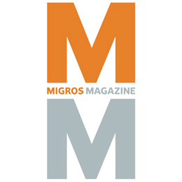 this is the logo of MIGROS MAGAZINE